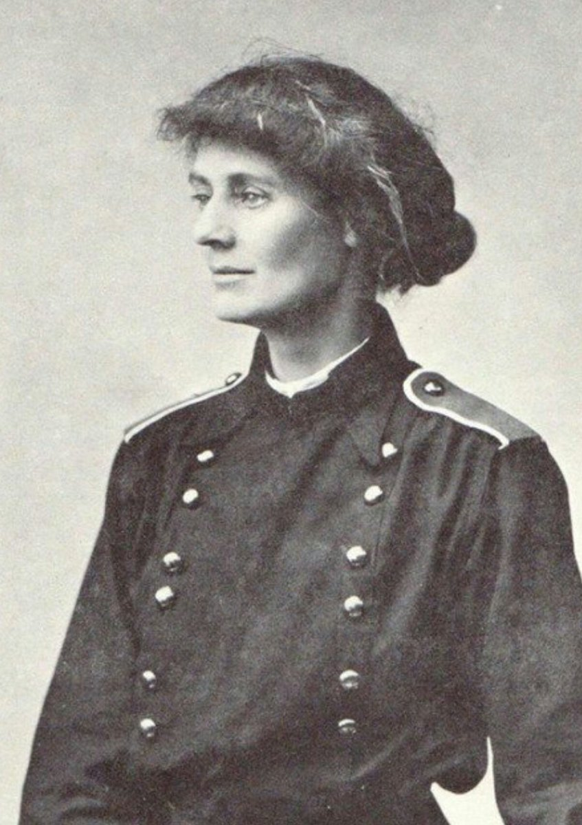 The Countess Markiewicz (1887-1927)